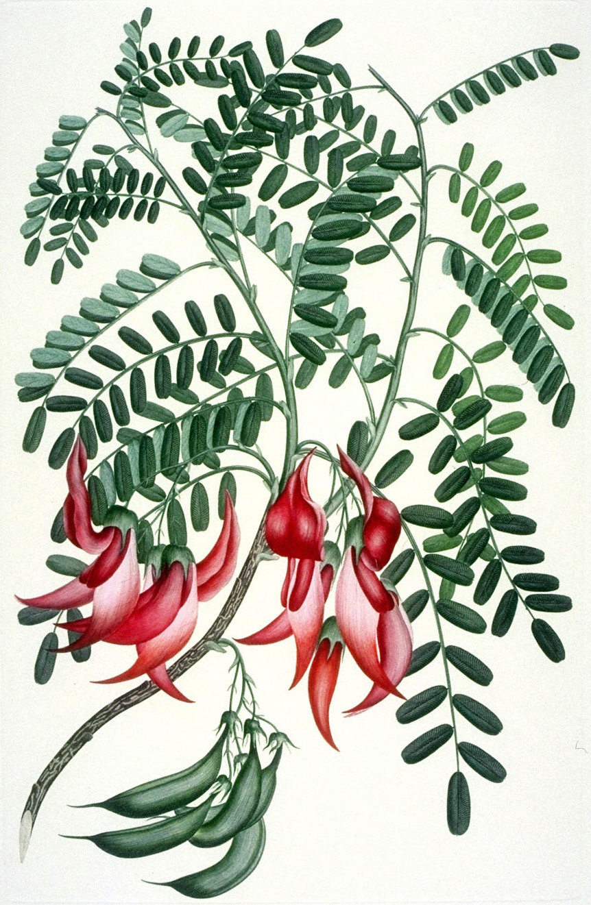 Kākābeak, (Clianthus puniceus), collected at Tolaga Bay, New Zealand, during Sir James Cook's first Pacific voyage on the Endeavour, 1768-1771. Coloured engraving, ink and watercolours on Paper.